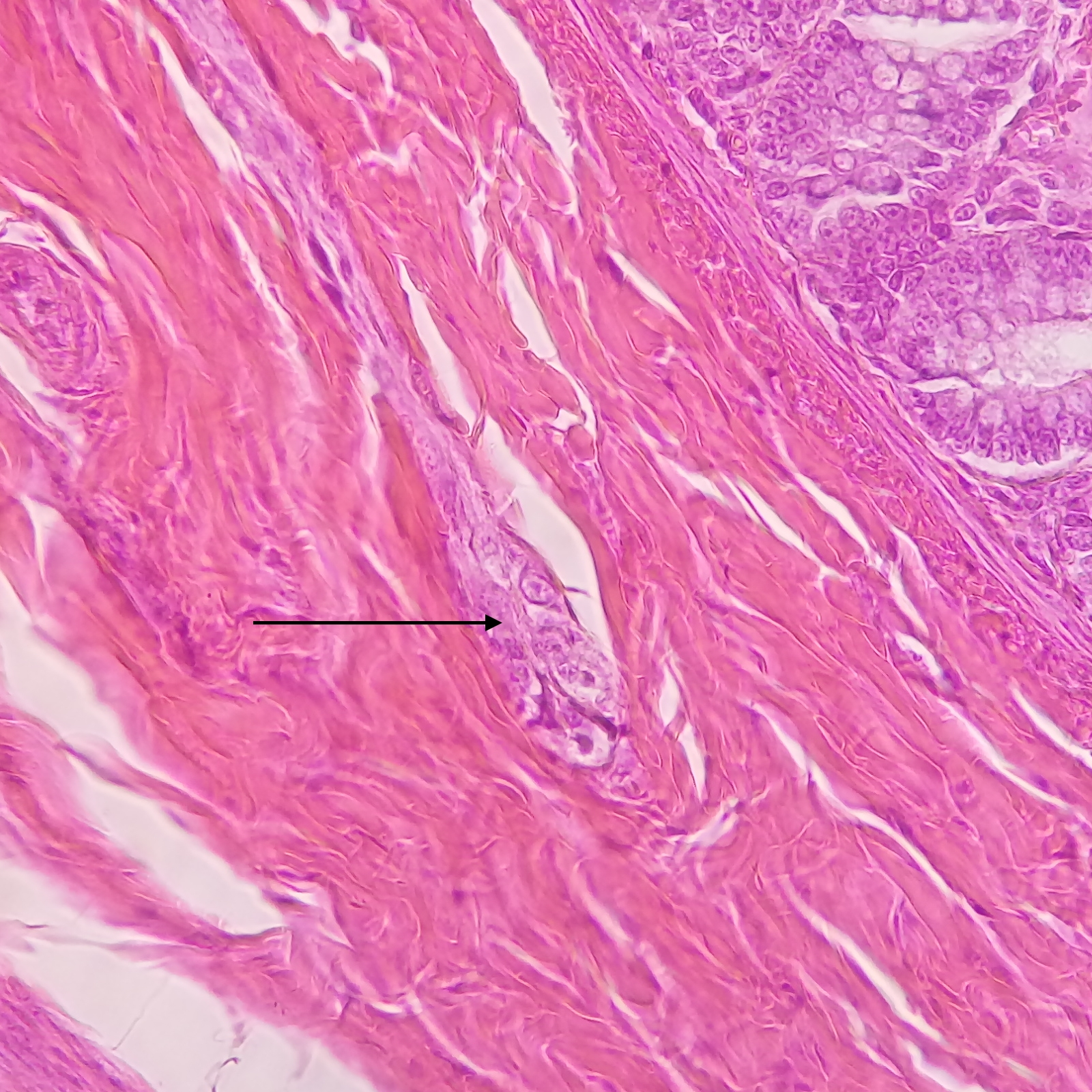 Arrow: Submucous plexus (or Meissner's plexus).